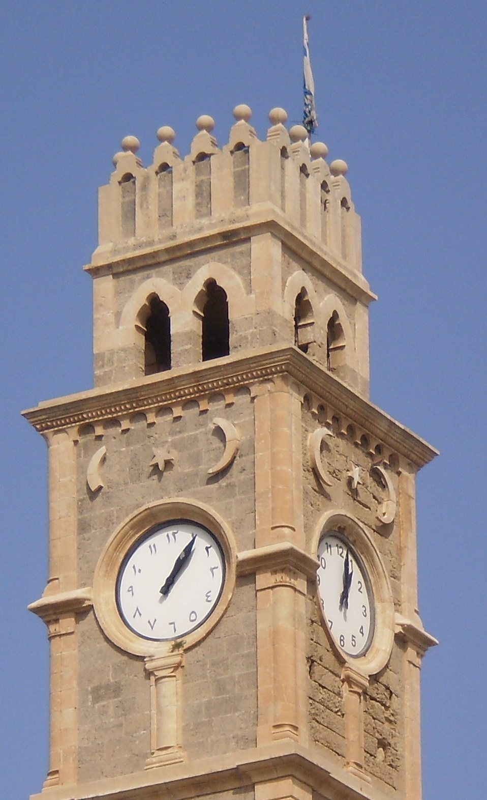 Akko Khan al-Umdan clock tower